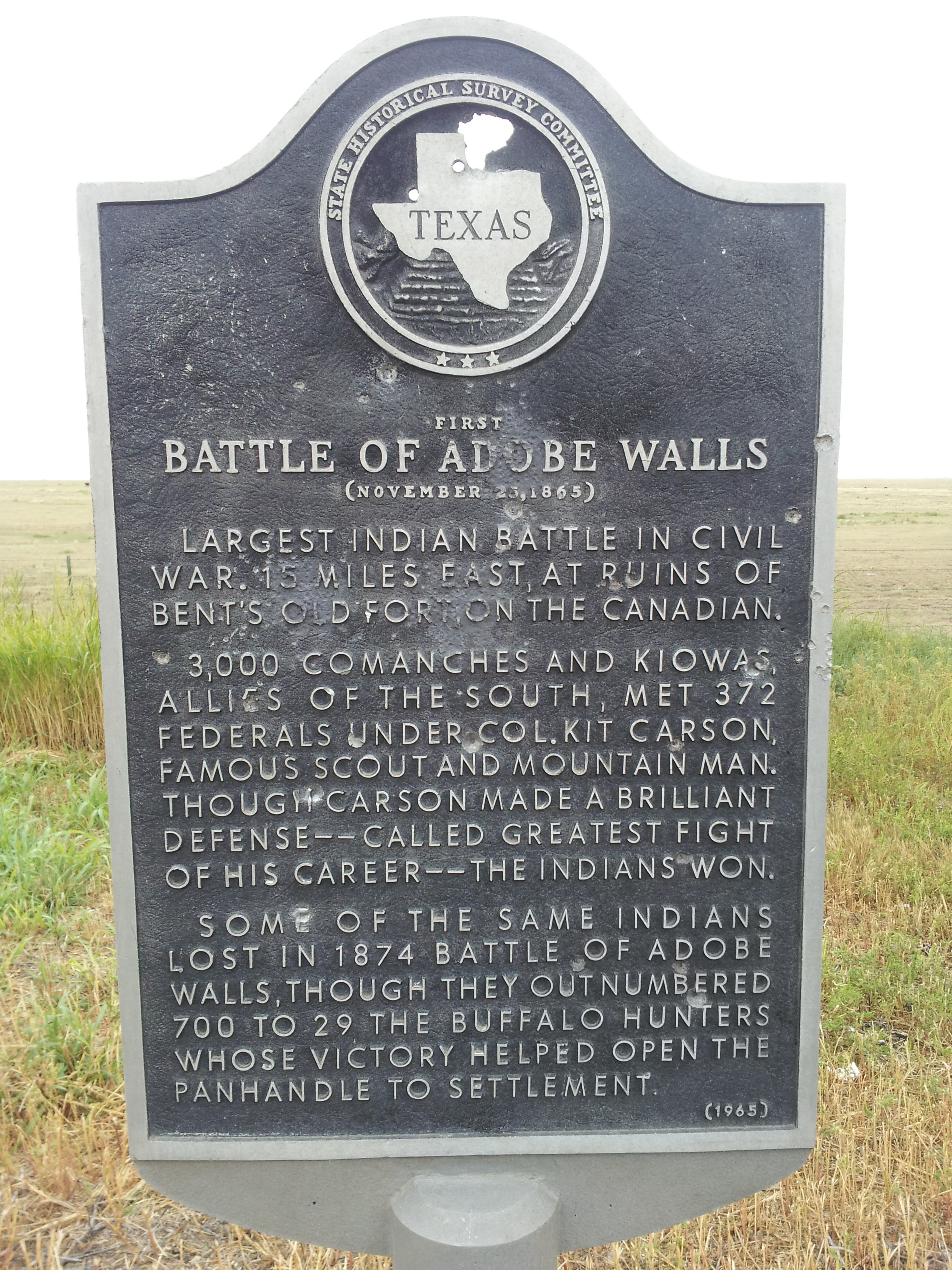 Adobe Walls Texas Historical Marker